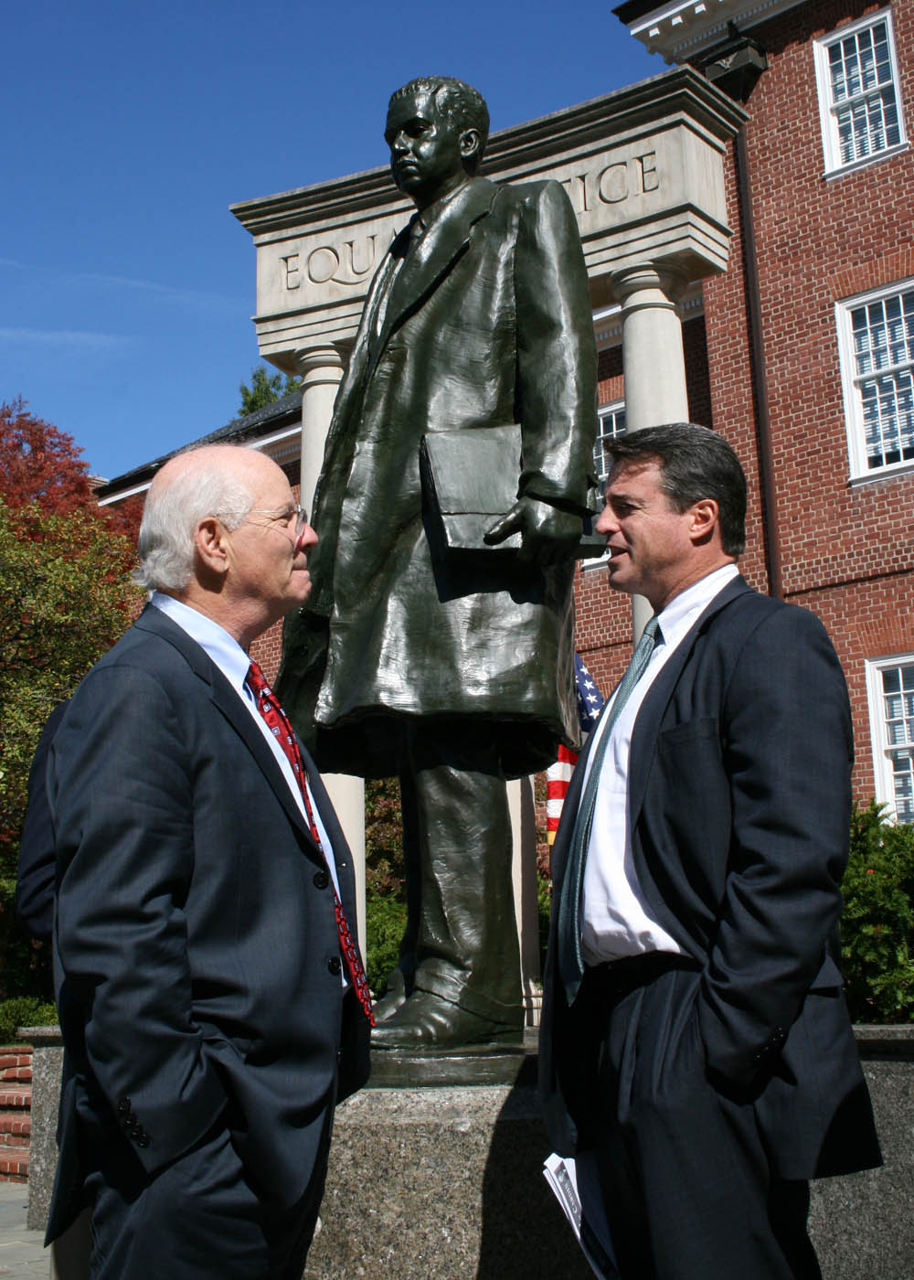 Marhland Attorney General Doug Gansler chats with Sen. Ben Cardin at Lawyer's Mall in Annapolis, near the Maryland State House.